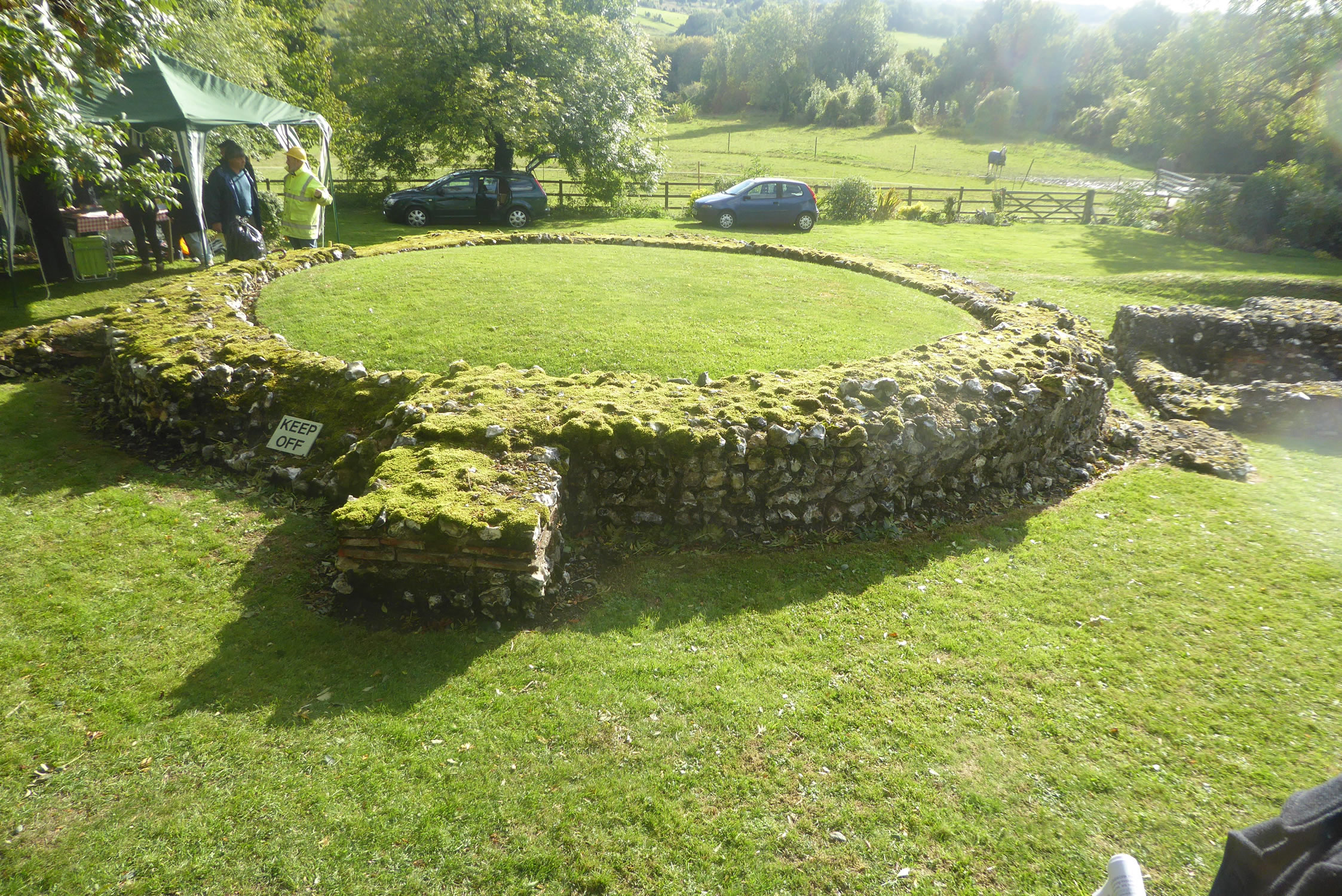 Remains of the Roman mausoleum at Keston, London; located near a Roman villa